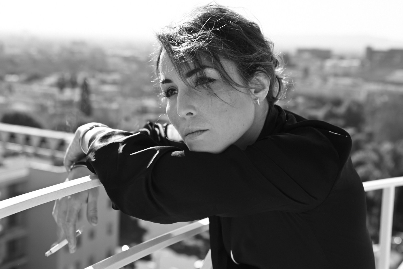 Noomi Rapace